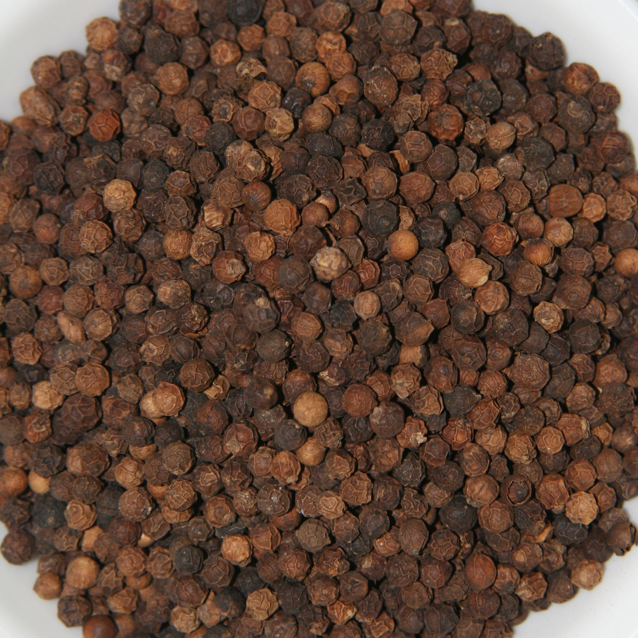 Bowl of dried black peppercorns for use in cooking